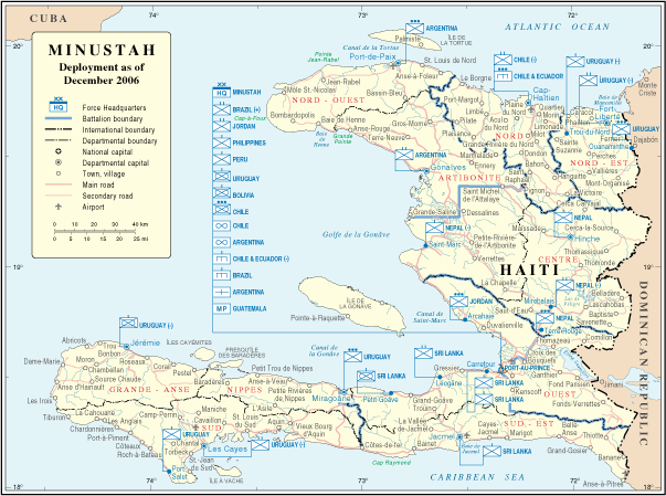 Map of Haiti